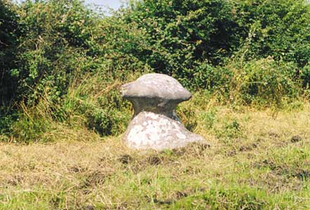 Louise Dunne